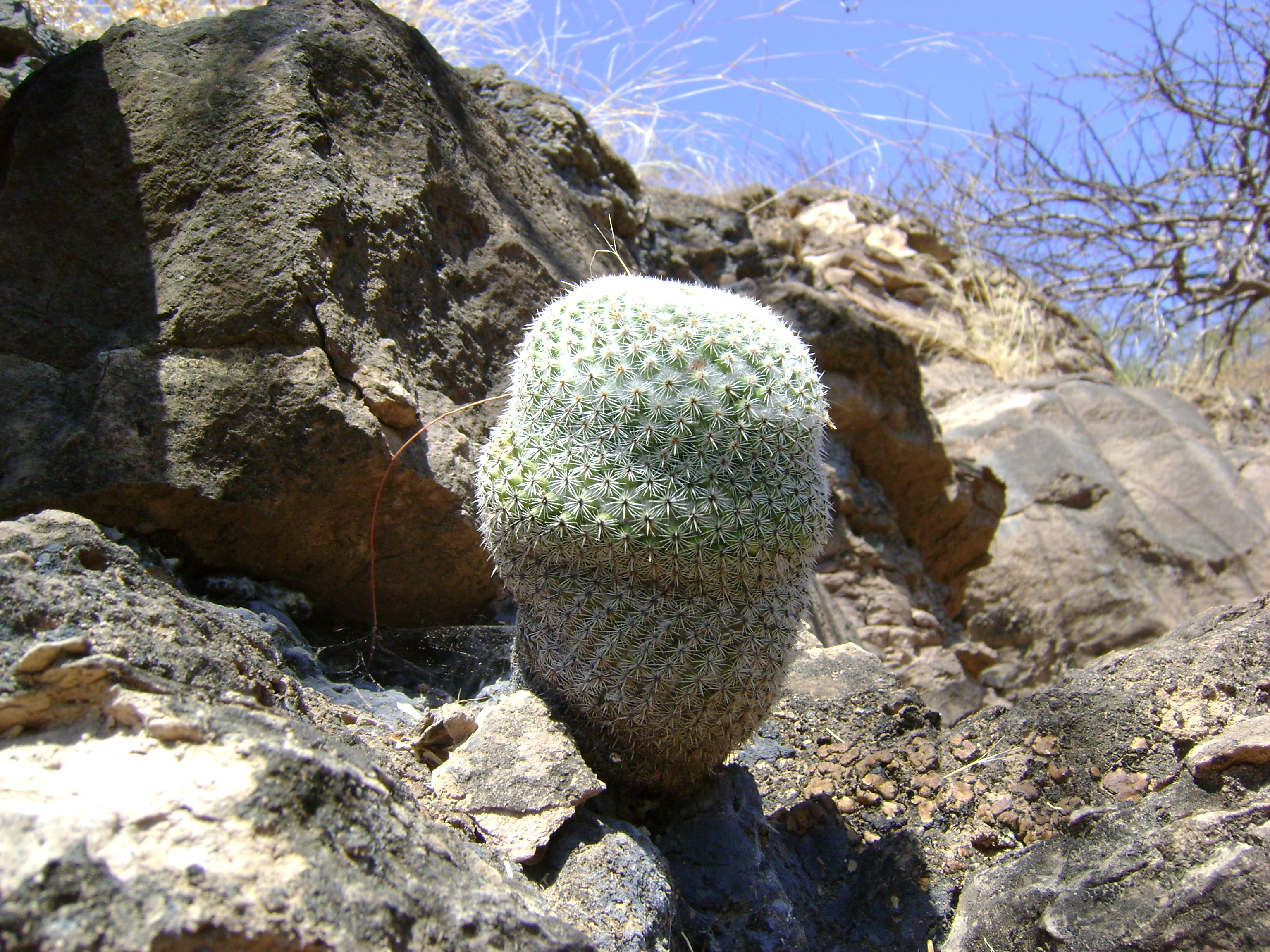 North Cuicatlan, Oaxaca